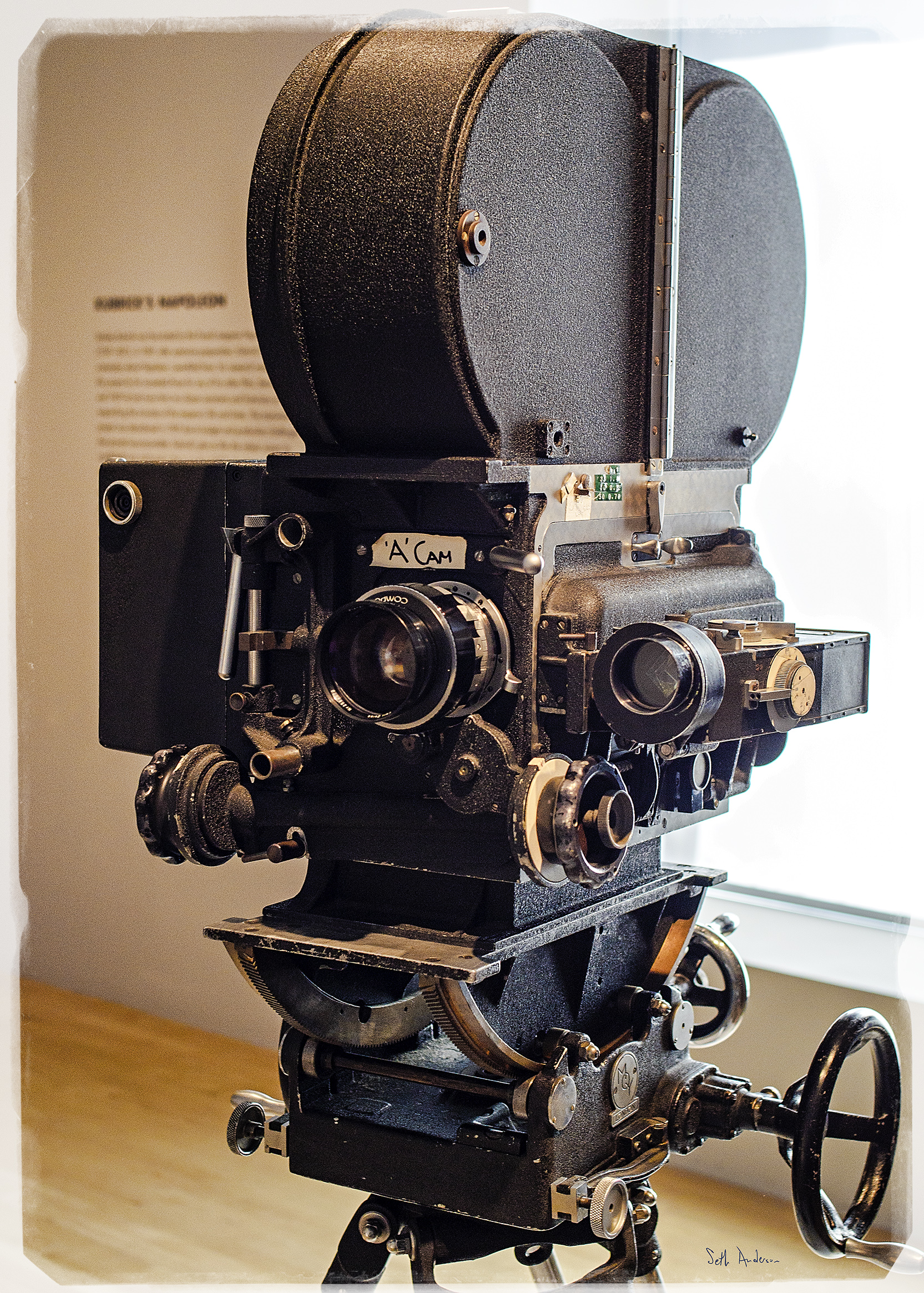 Stanley Kubrick's "A" camera at the LACMA exhibit (Possibly from Barry Lyndon)